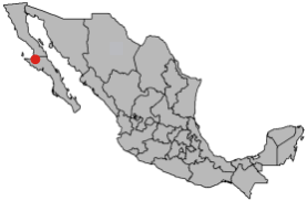 Location map of Guerrero Negro, México.